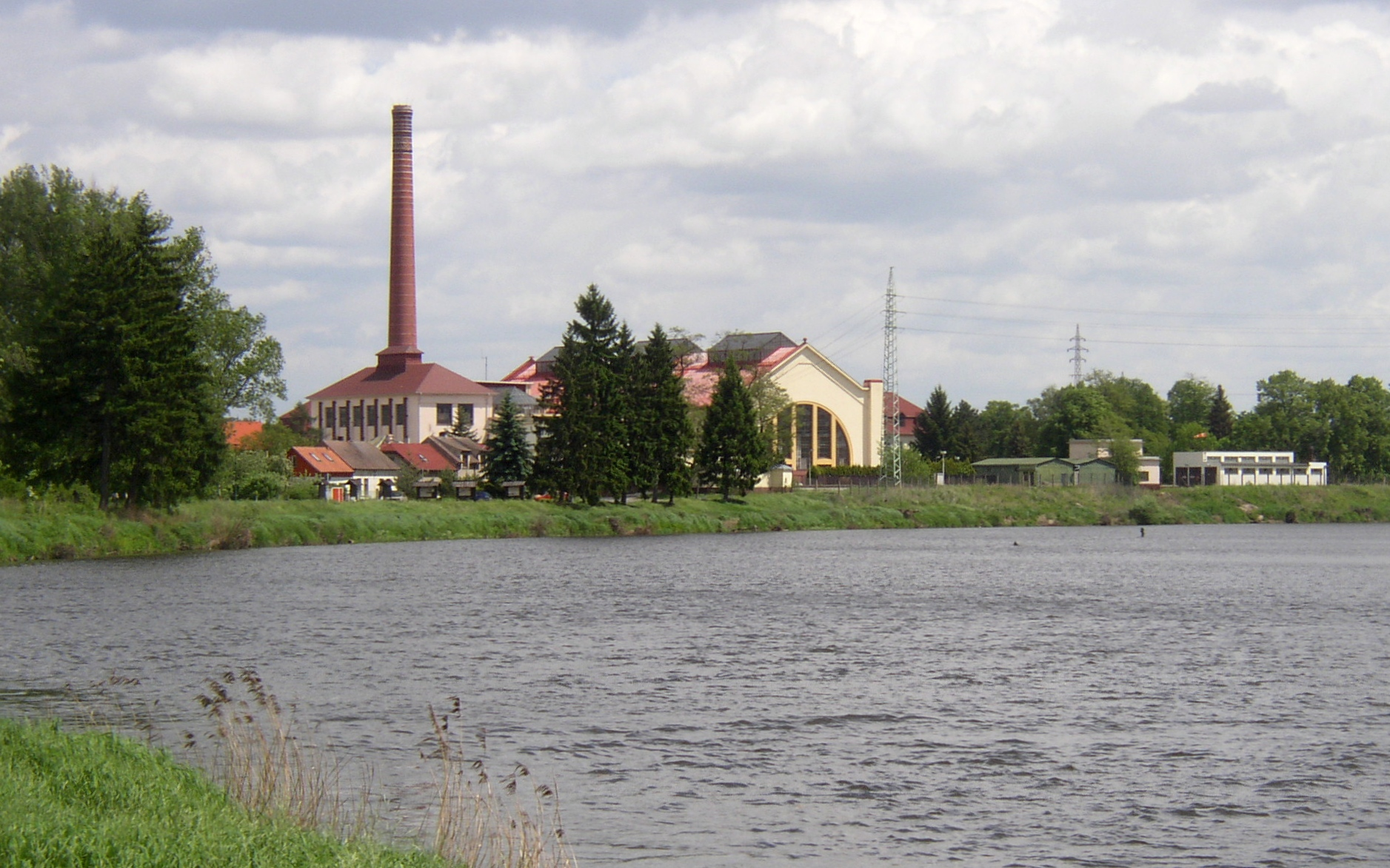 Water treatment facility on right bank of the Elbe River in Káraný, Czech Republic. One of three major sources of drinking water for Prague.